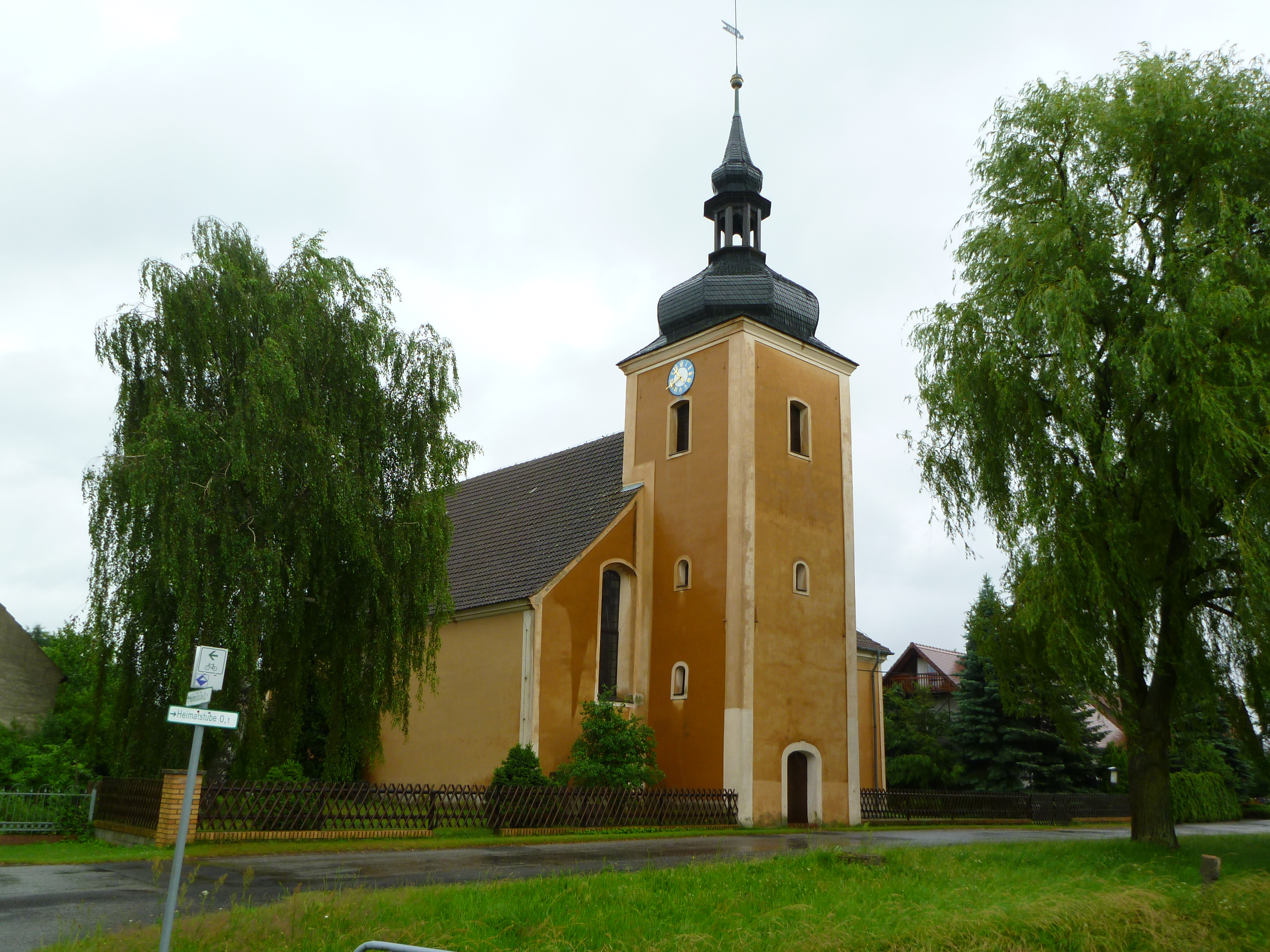 Church in Groß Schacksdorf